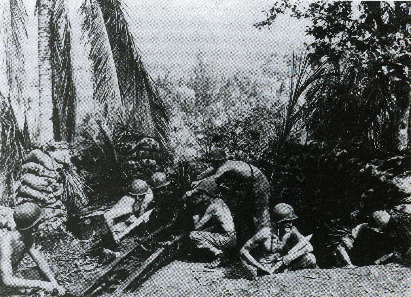 A U.S. 11th Marines 75mm pack howitzer and crew on Guadalcanal, September or October, 1942. The lean condition of the crewmembers indicate that they haven't been getting enough nutrition during this period.